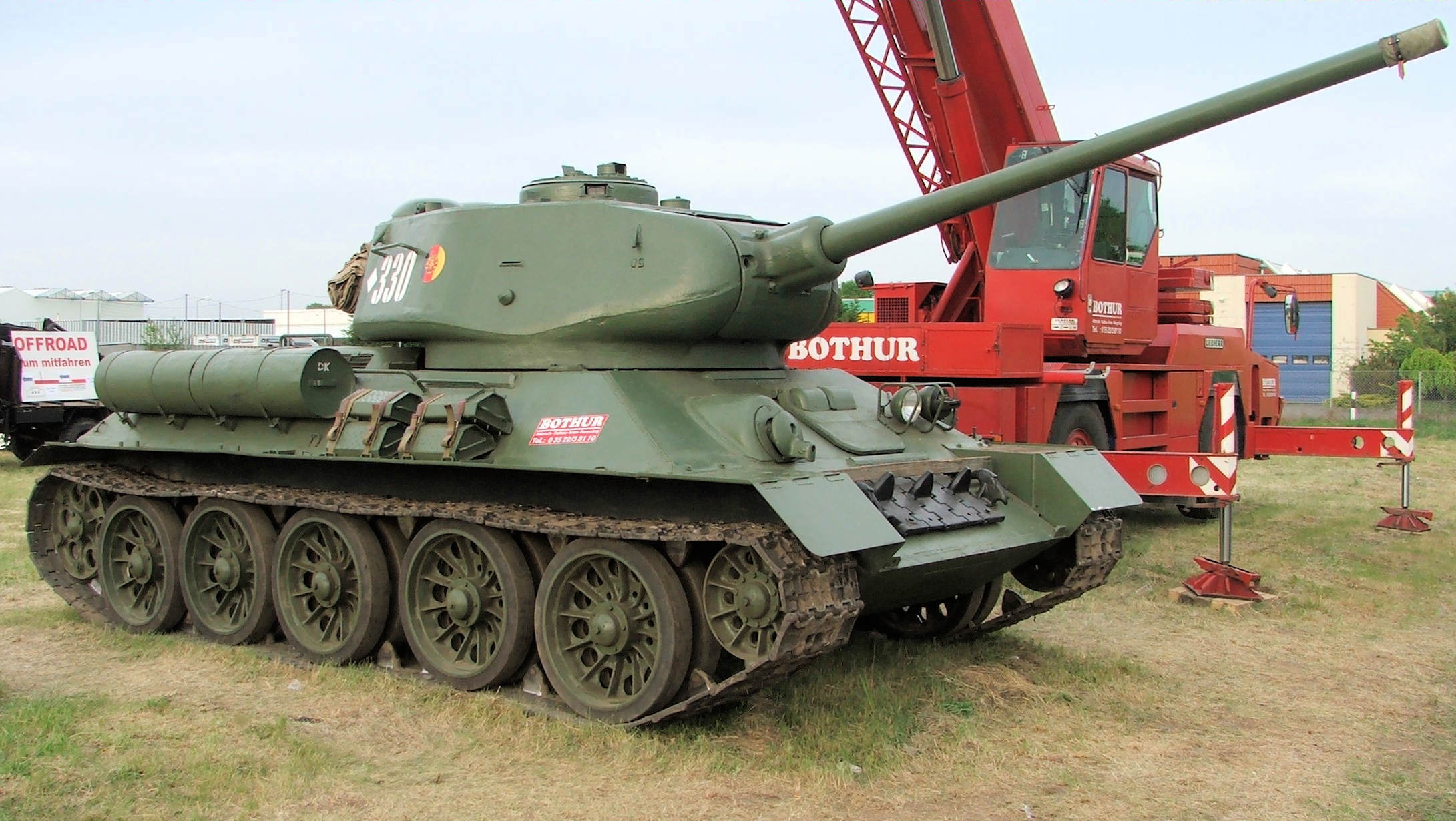 Tank T-34/85